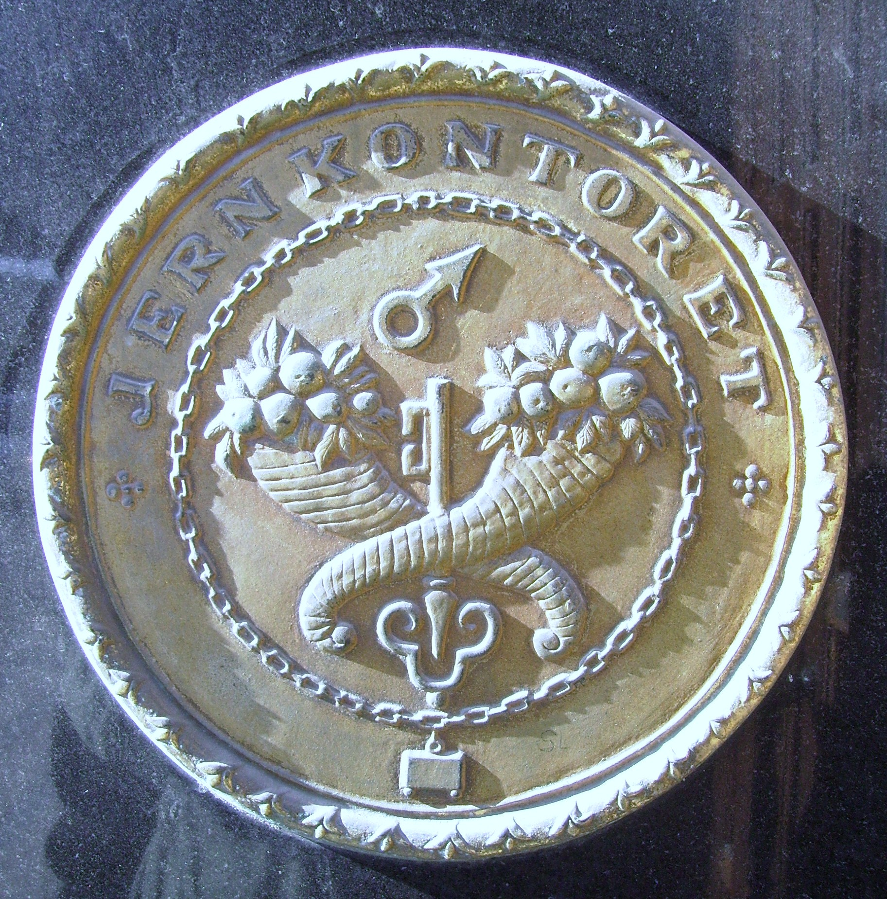 Picture of sign for Jernkontoret in Stockholm